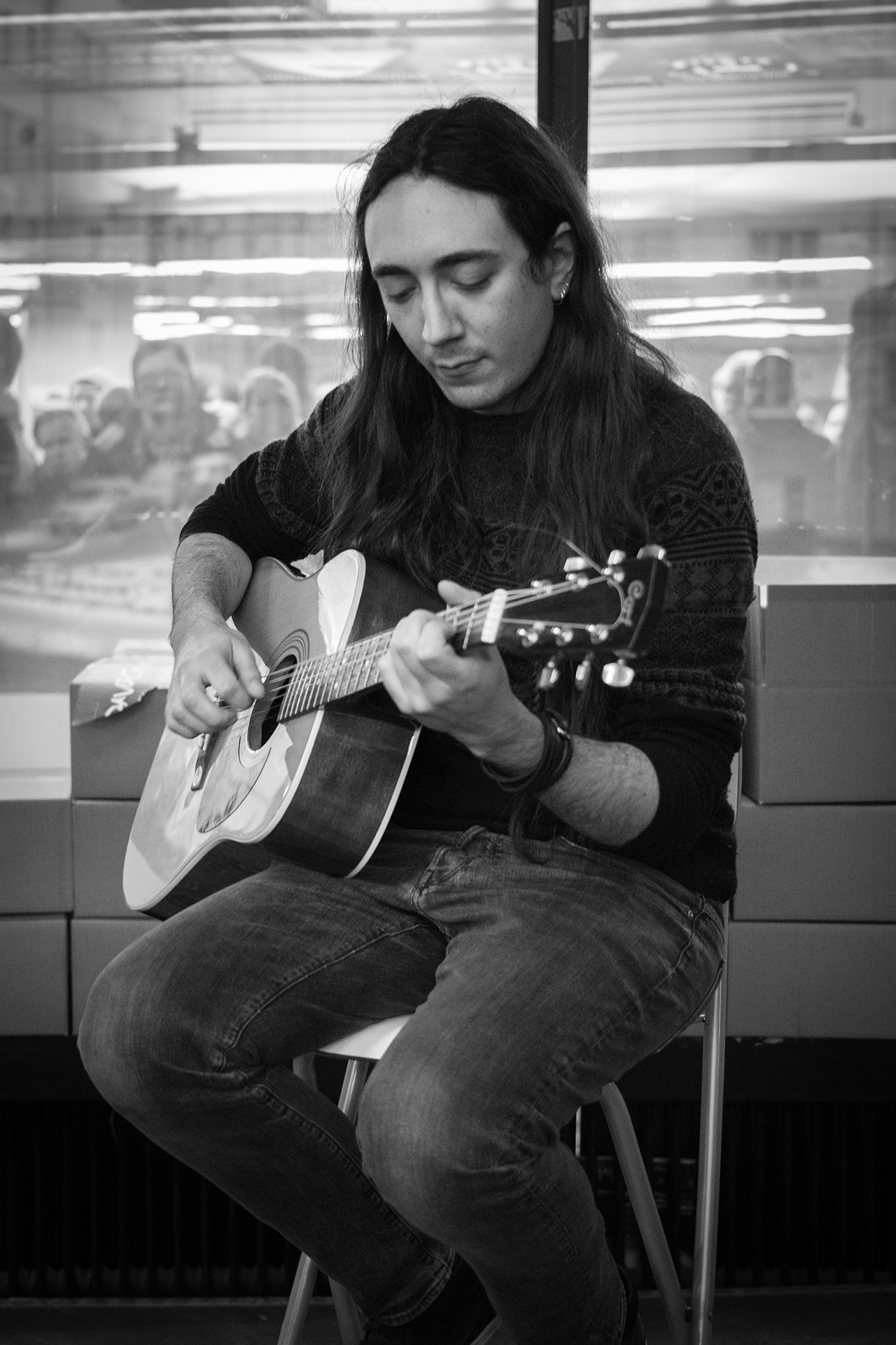 Neige of french band Alcest peforming an acoustic show in Helsinki.